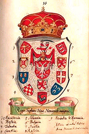 Fictional Car Uros Coat of Arms